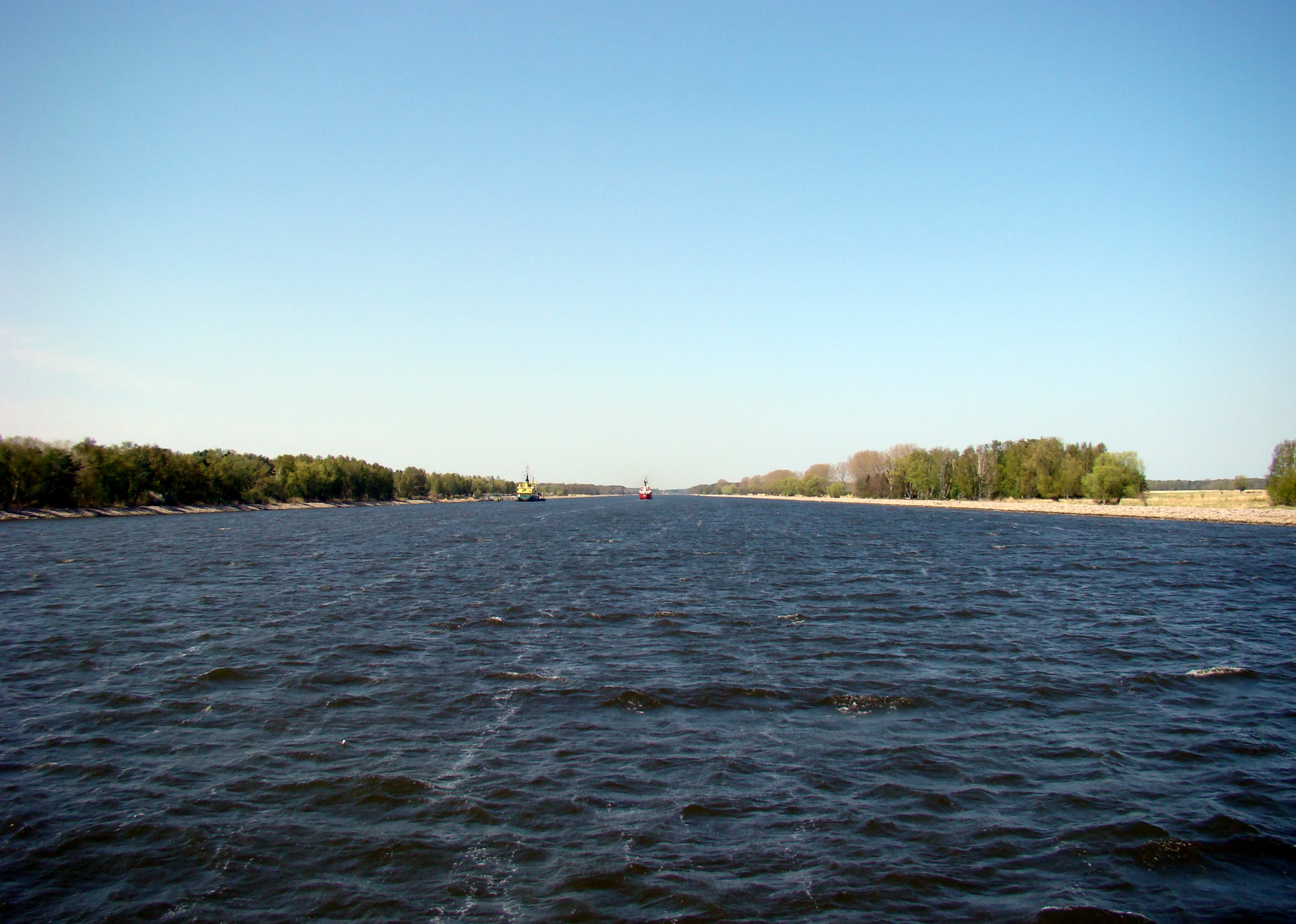 Piast Canal, Fairway Szczecin-Swinoujscie, Poland